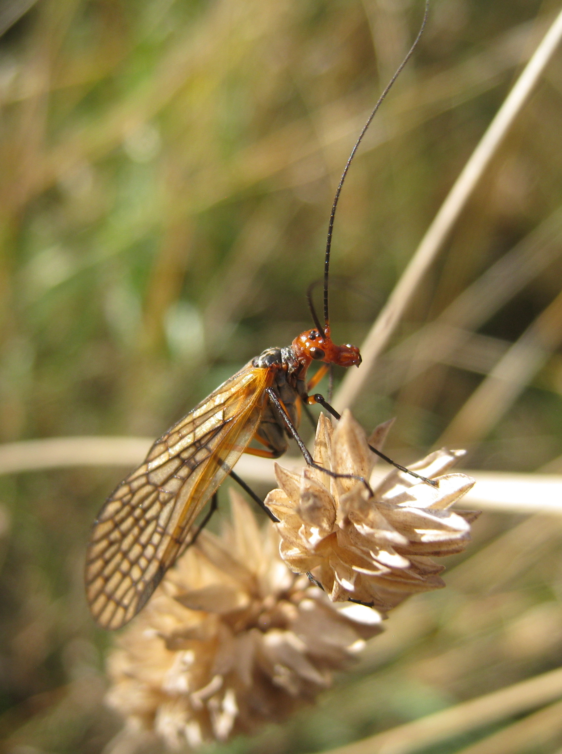 Chorista australis is a species of scorpionfly in the family Choristidae on what appears to be a dried head of Phalaris aquatica. Gundaroo Common, Gundaroo NSW Australia, April 2011. There are about 30 species of scorpionfly in Australia, only a few species are found in this area. This scorpionfly is about 20 mm long; has a head that looks like it belongs on a dragon; long antennae with the first 2-3 segments a red-brown colour; strong, dark veins in its wing; and distinct pterostigma. The hallmarks of Chorista australis. EF Reik reports the adults emerging in late summer and autumn (tick), generally observed in moist grassy situations (tick), and only occur in the wetter areas (Well, it has been very wet this year. Where do they go for the 10 or so years of intervening drought?). A revision of Australian scorpion flies of the family Choristidae (Mecoptera), EF Reik, Australian Journal of Entomology, Volume 12, Issue 2, pages 103–112, June 1973.